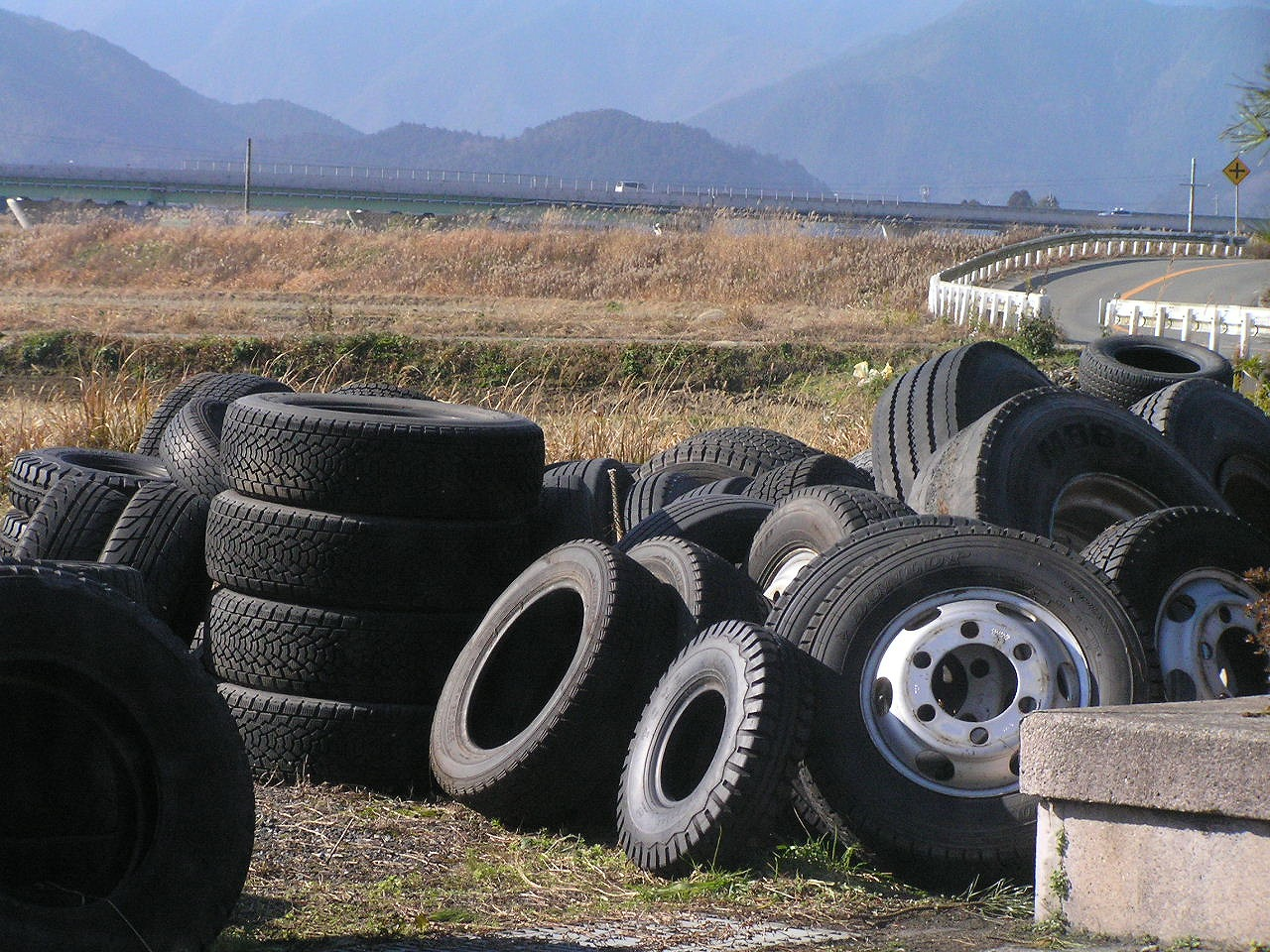 Suburban abandoned tire